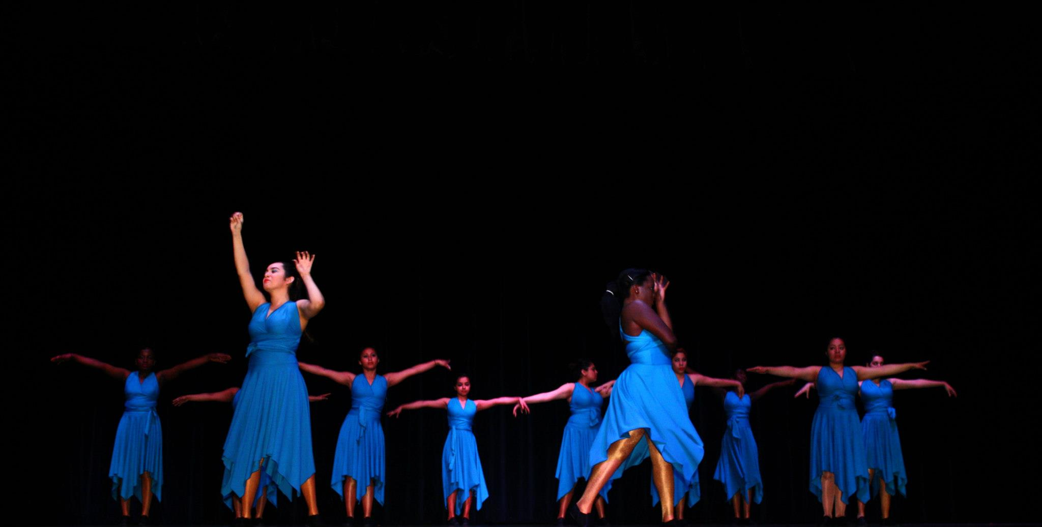 The May 2013 Lee High School Dance Show now coached by Tamara Tisdale.